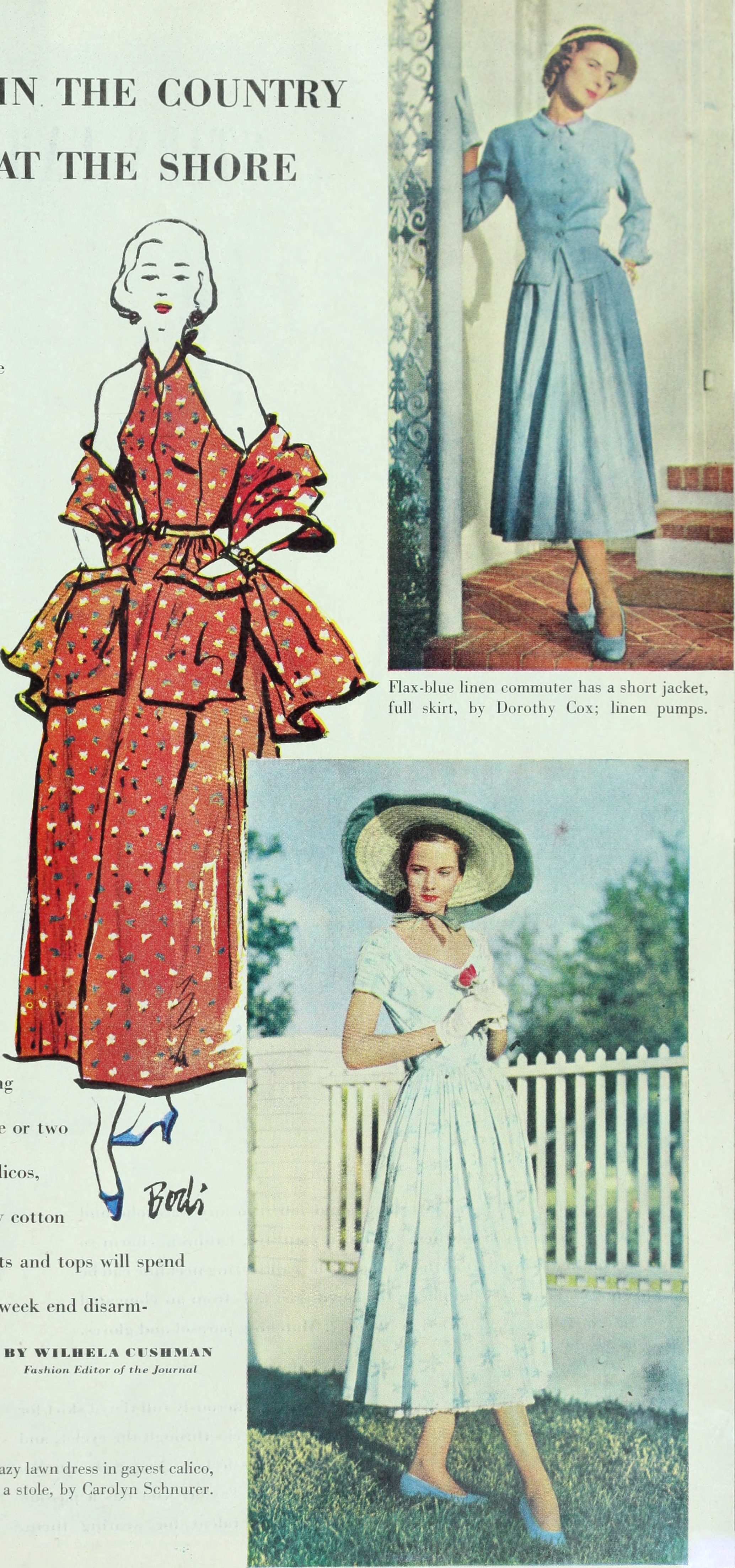 Title: The Ladies' home journal Year: 1889 (1880s) Authors: Wyeth, N. C. (Newell Convers), 1882-1945 Subjects: Women's periodicals Janice Bluestein Longone Culinary Archive Publisher: Philadelphia : (s.n.) Text Appearing Before Image: parasol—just for fun. One or two such bathing suits and calicos, one commuter, one swishy cotton print and a couple of skirts and tops will spend the summer thriftily—or week end disarm- ingly—from now on. * by wilhela cvshman Fashion Editor of the Journal (Above) Beach or lazy lawn dress in gayest calico,sunback style with a stole, by Carolyn Schnurer. Text Appearing After Image: -to-sunset chintz skirt bykm; white eyelet blouse. Blue-on-blue print with shirred bodice, full skirt, muslin petti-coat, by Tina Leser. Chin-tied Dicture hat, John Frederics.